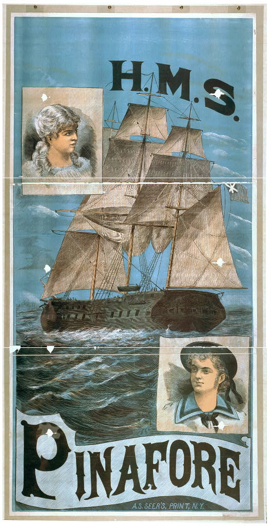 1879 Woodblock-print advertisement for an American production of H.M.S. Pinafore, housed at the Library of Congress. The Library of Congress site says that they are D'Oyly Carte Opera Company productions (see here), but that seems dubious, since Carte's name does not appear on the poster, and he would have been eager to distinguish his production (December 1879) from the many unauthorised productions. The Library of Congress does not make any additional copyright claims to its material, and, given the date, this is clearly out of copyright. Further, see below